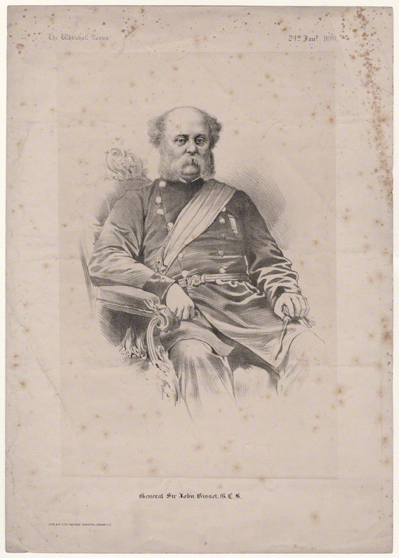 Portrait of General Sir John Bisset